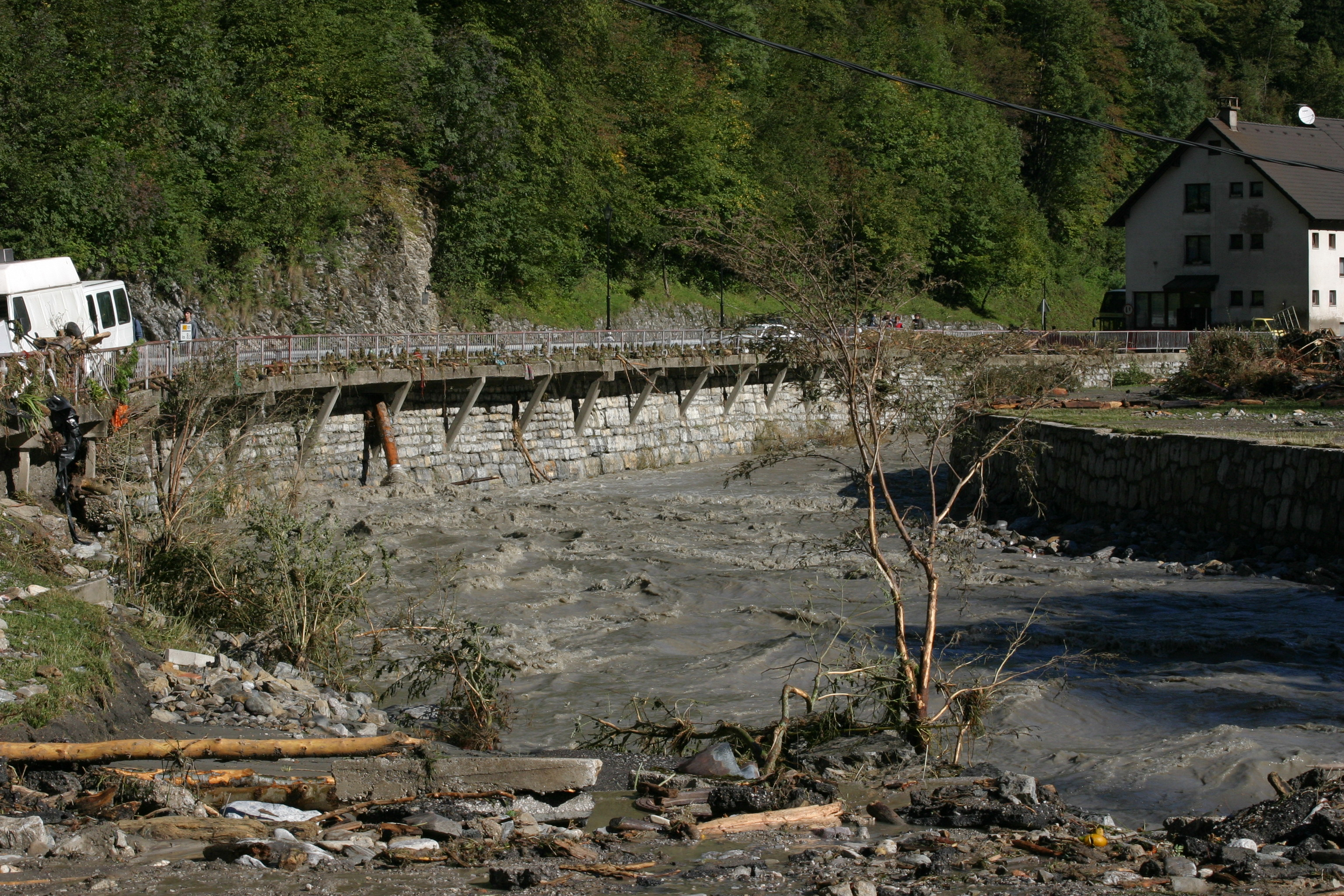 Selška Sora in Železniki after the flood of September 18, 2007